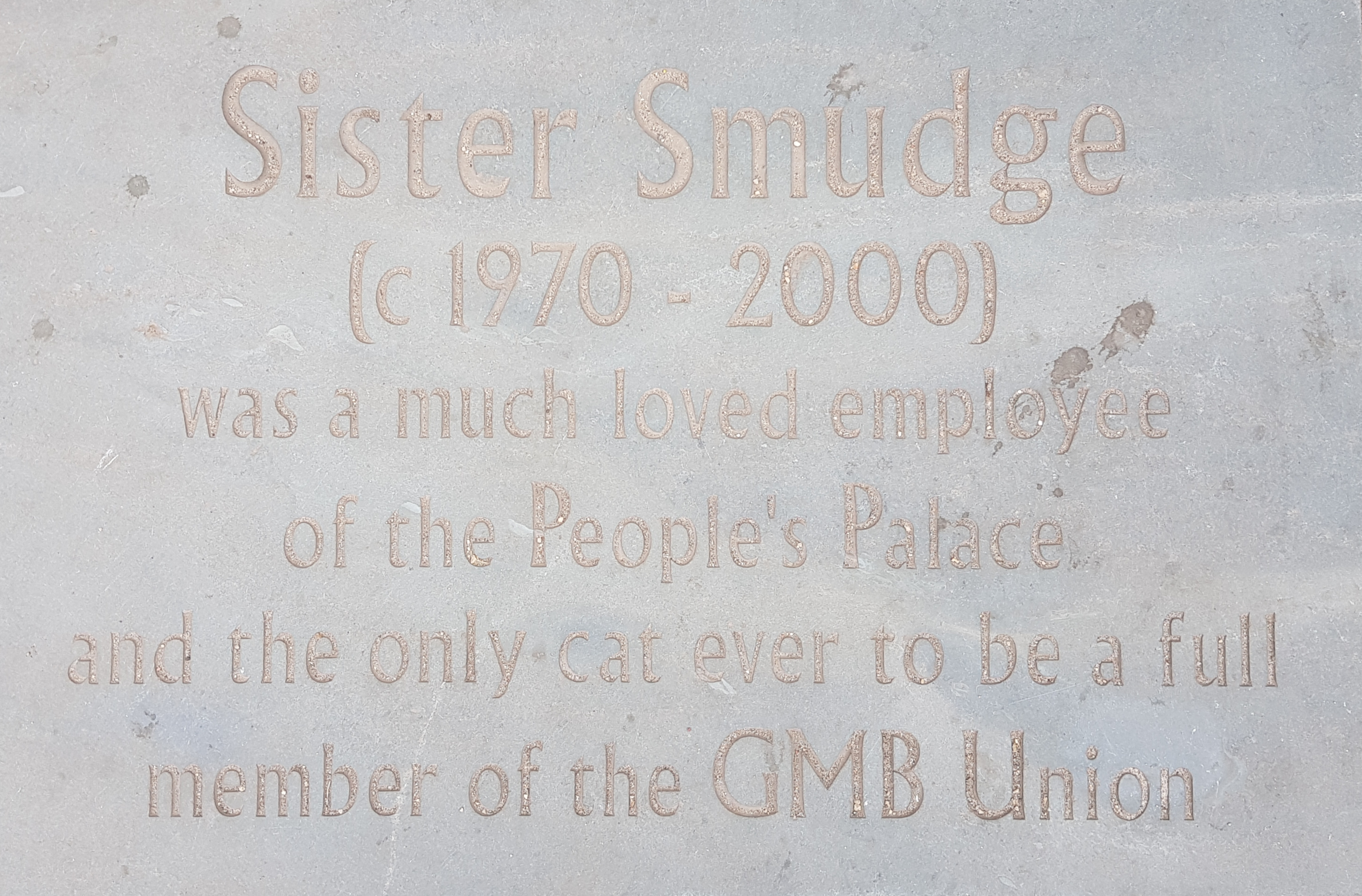 Stone plaque dedicated to Smudge, notable cat employed at the People's Palace in Glasgow to address a rodent infestation problem